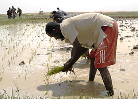 Rice farmers in Mali, Africa